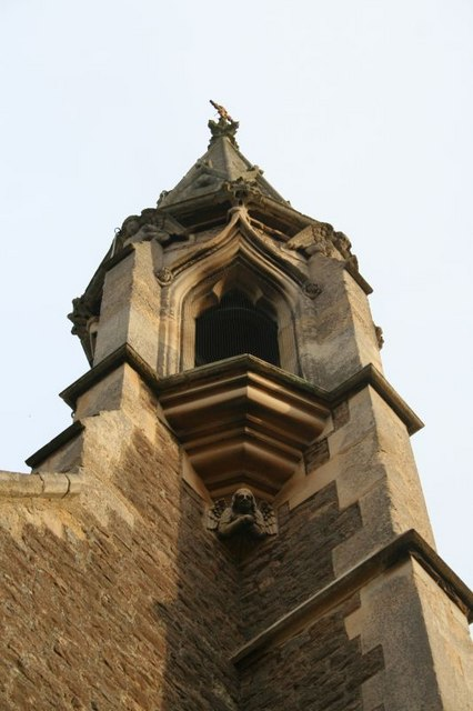 Angel watching over Looking up at the spire of St Michael's with a carving of an angel looking down.